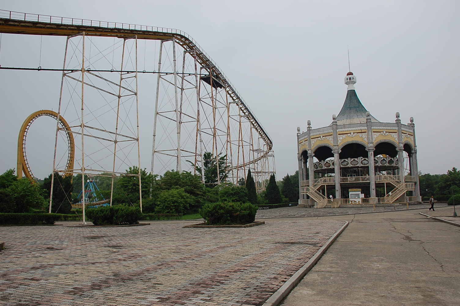 Trip to North Korea in June, 2008